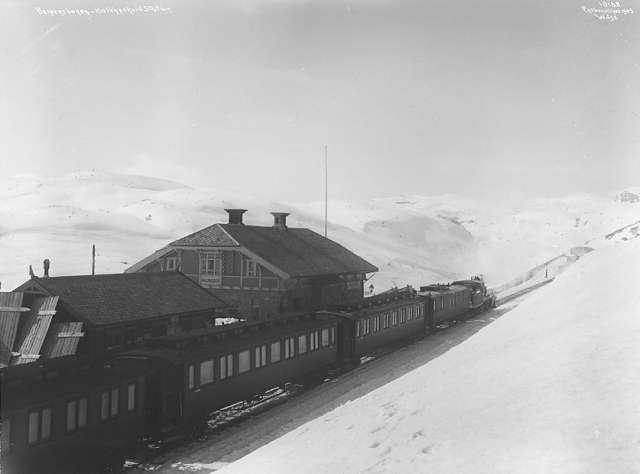 Passenger train at Hallingskeid Station of the Bergen Line in Norway